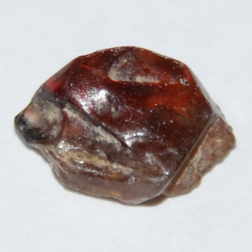 Natural zirkon, ZrSiO4. Original size in cm: 0.7